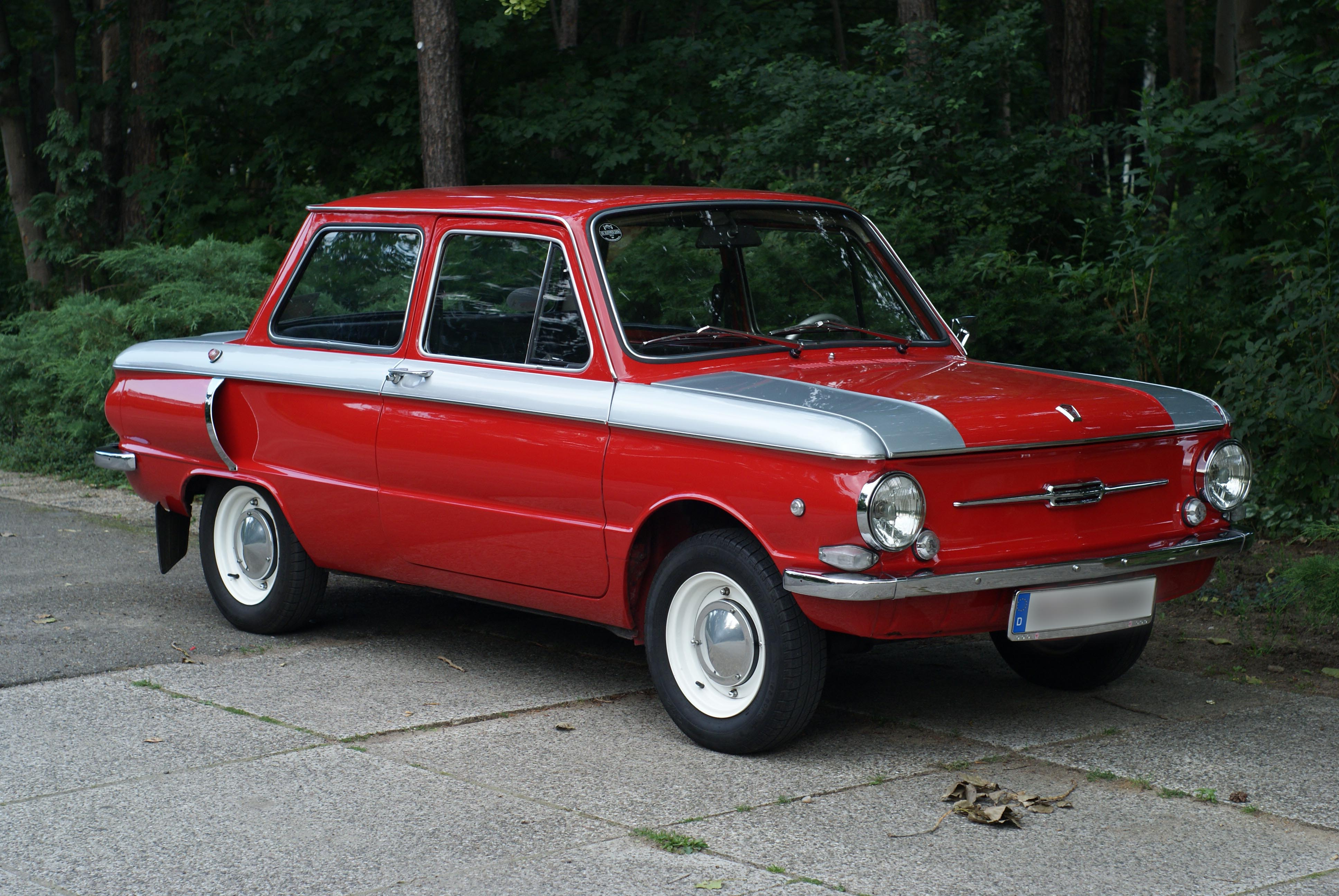 Zaporozhets ZAZ 986, Berlin